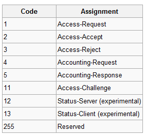 Радиус пакетын код талбарын боломжит утгууд